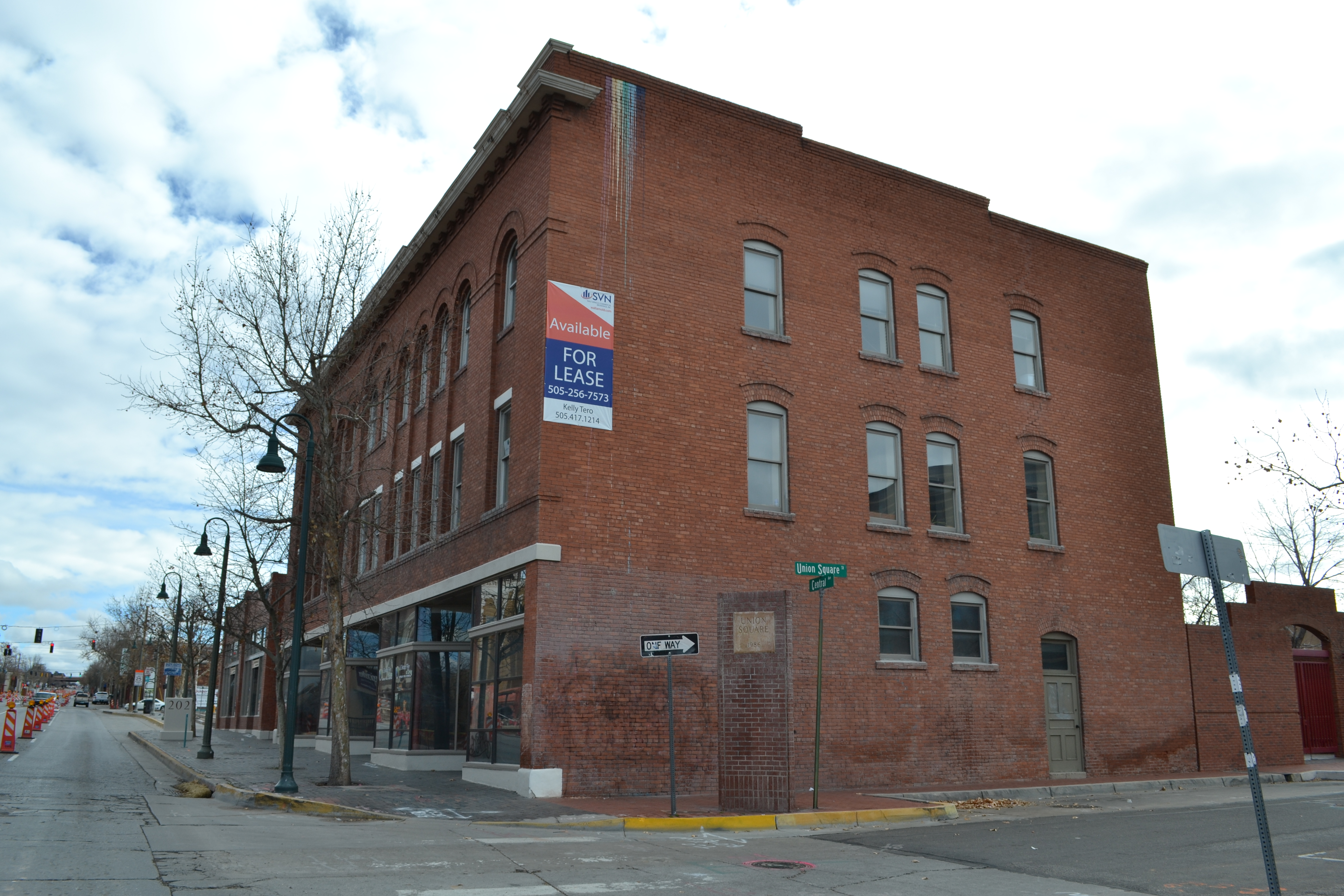 The Highland Hotel in Albuquerque, New Mexico, built in 1905